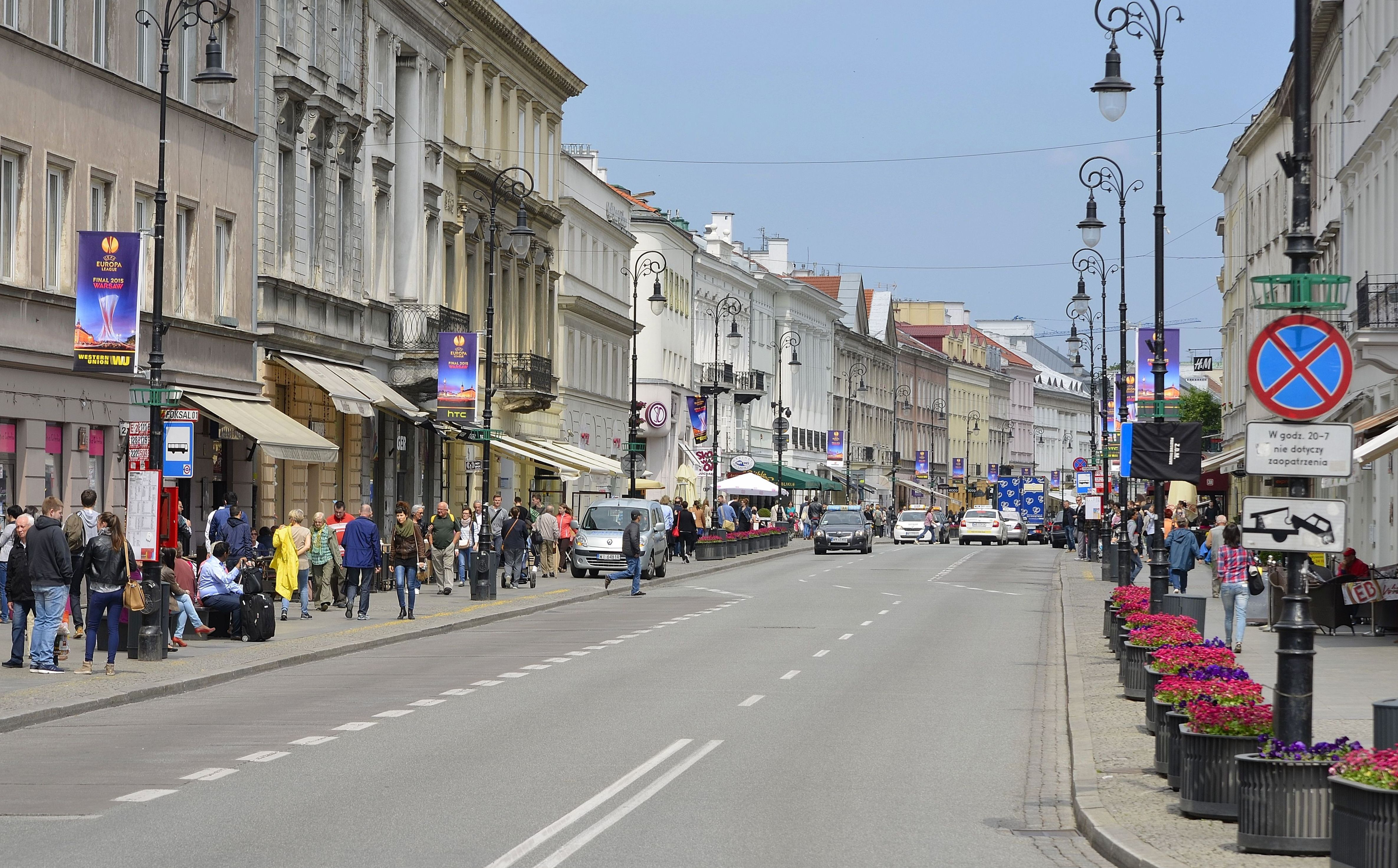 Nowy Świat Street in Warsaw